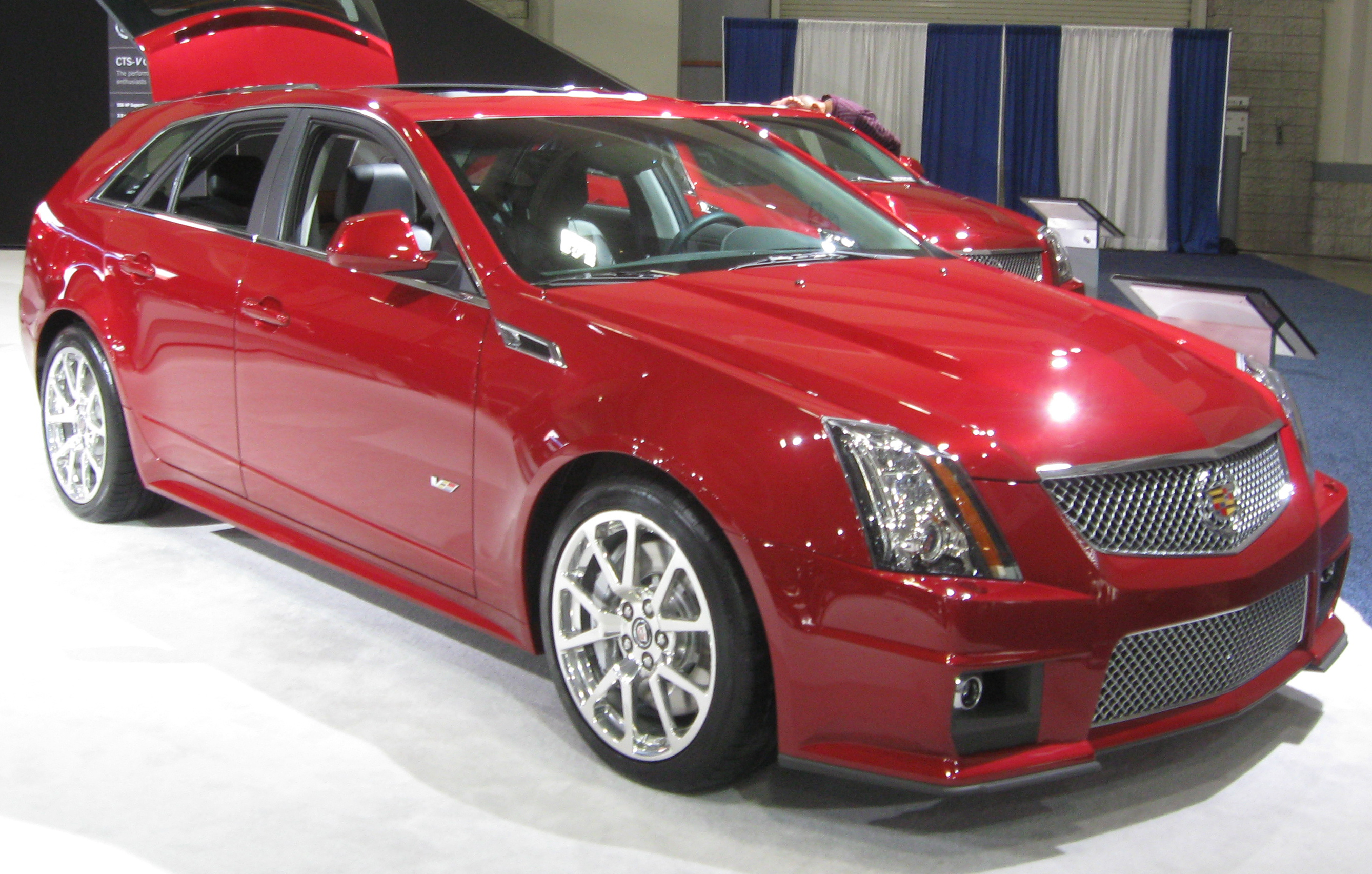 2011 Cadillac CTS-V photographed at the 2011 Washington (D.C.) Auto Show.